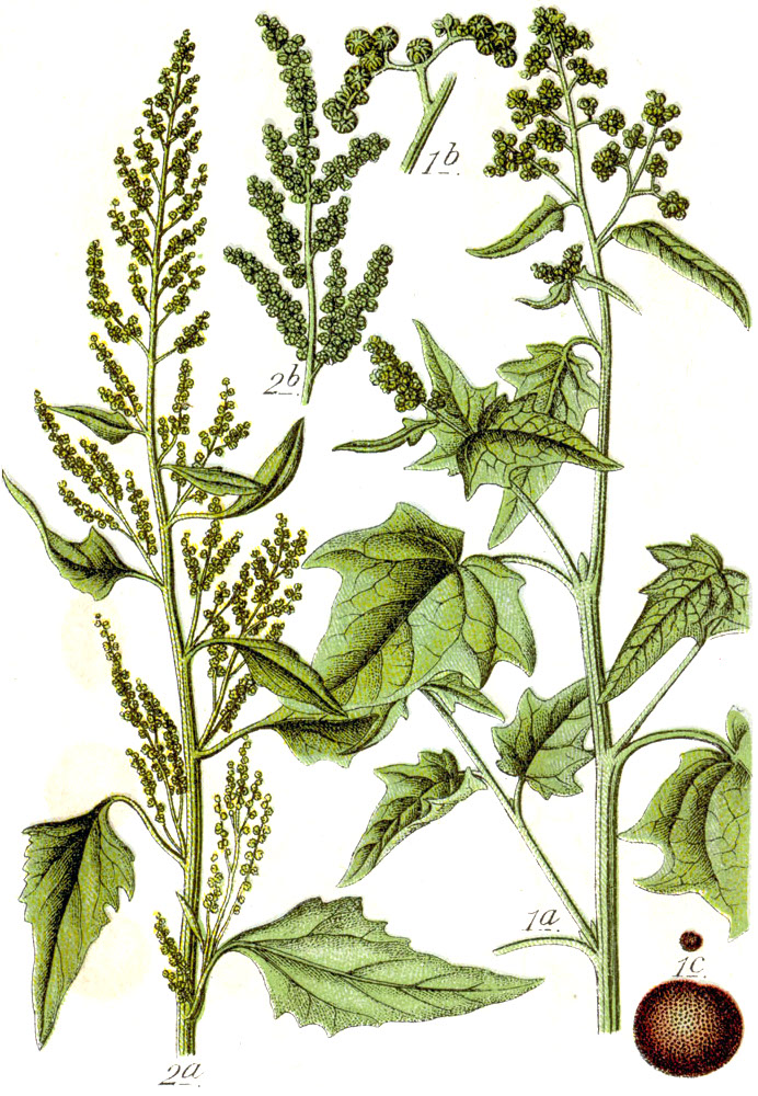 1. Chenopodium hybridum L., syn. Chenopodium stramoniifolium Chev. 2. Chenopodium urbicum L. Original Caption 1. Gänsefuss, Chenopodium stramonifolium 2. Stadt-Melde, Chenopodium urbicum